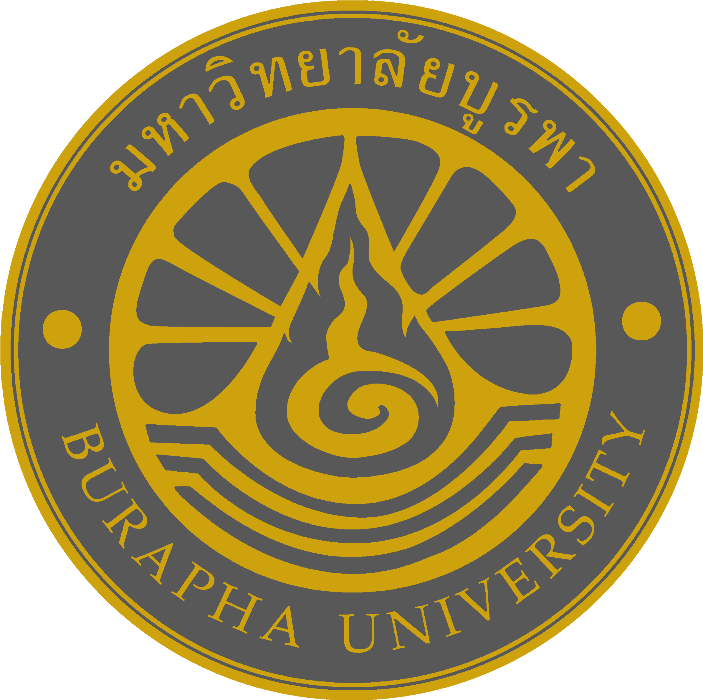 burapha university bs